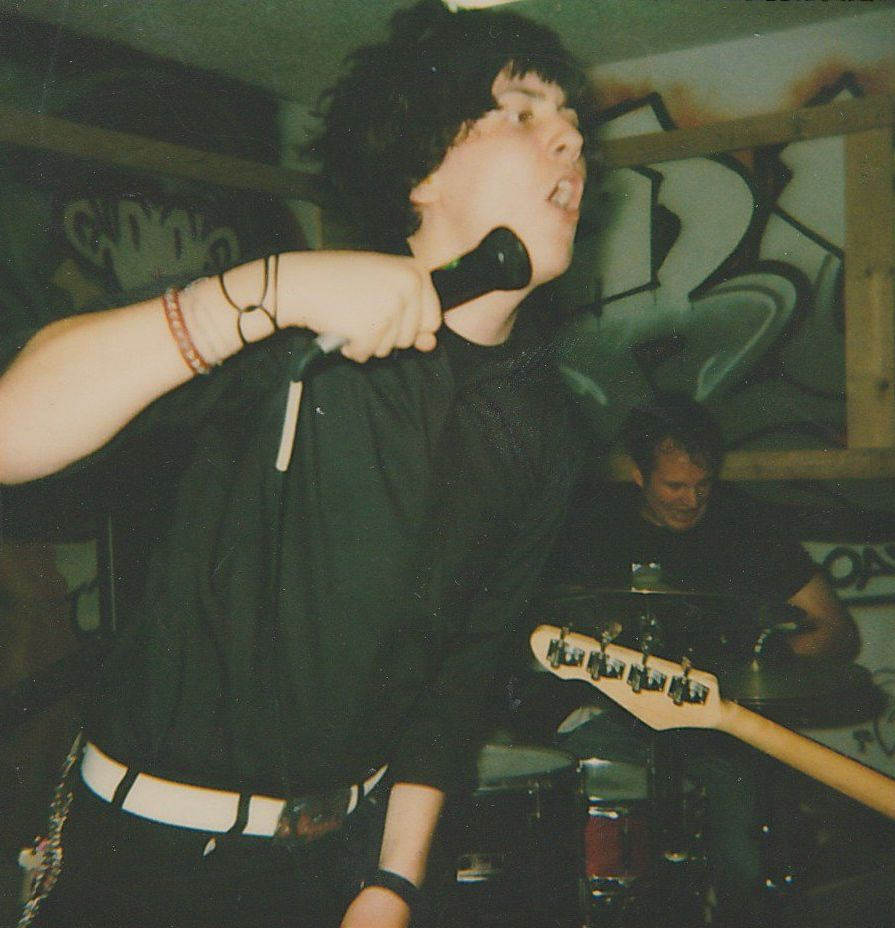 Orchid, live in Bloomington, Indiana. Taken by Polaroid.